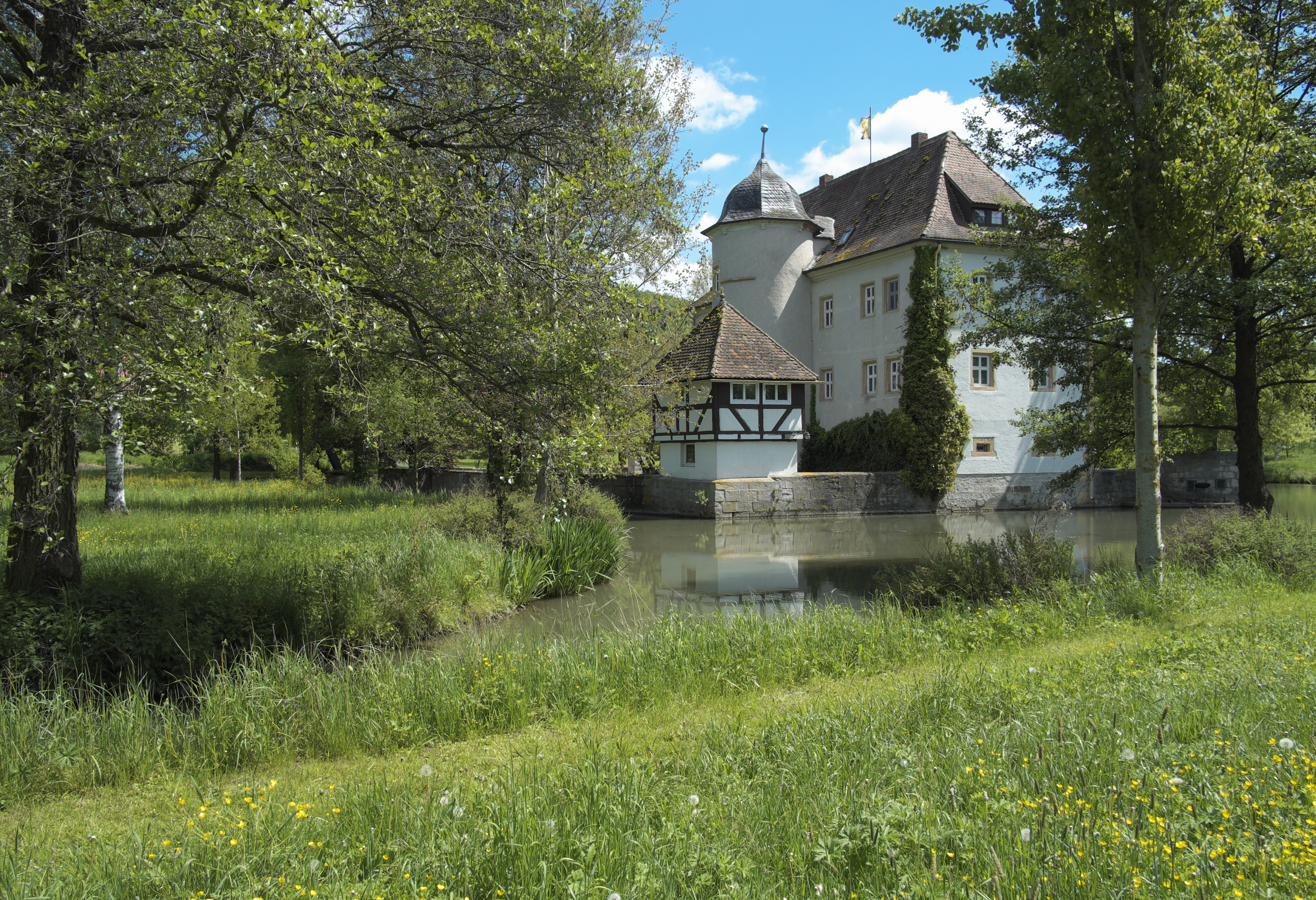 Park and moated castle Kleinbardorf, county Rhön-Grabfeld, Bavaria